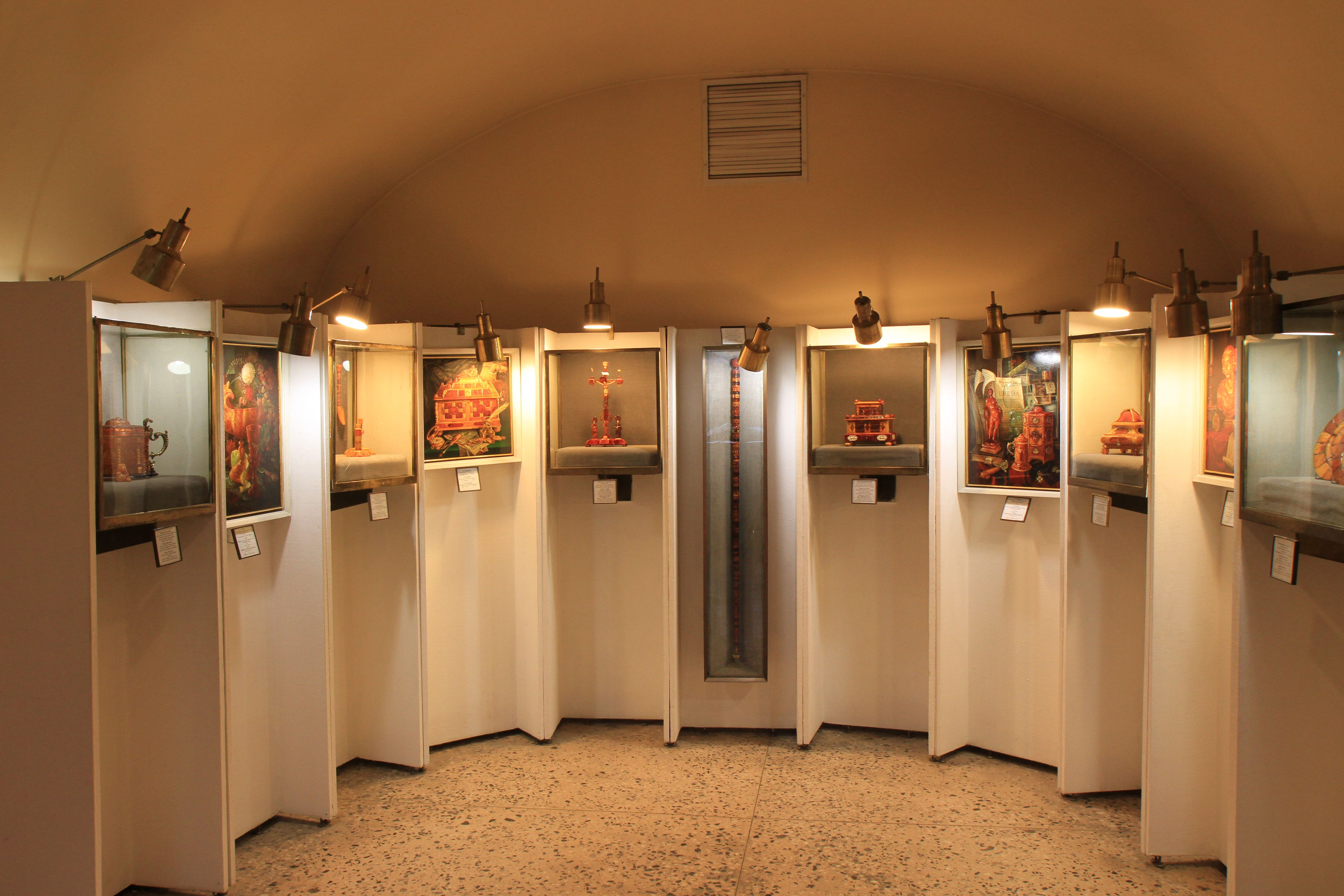 Exposition of amberart (17th. century)